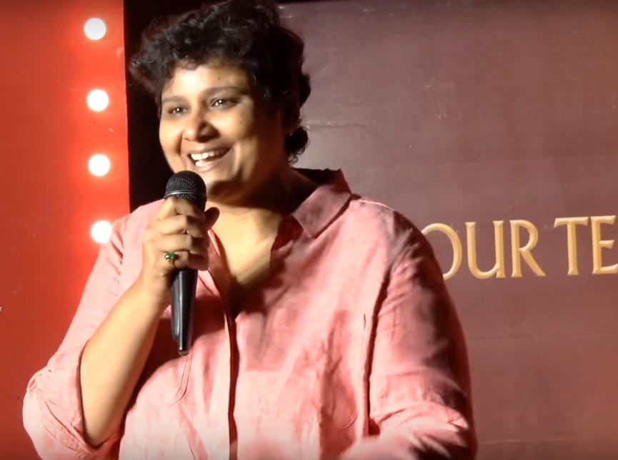 Indian filmmaker B. V. Nandini Reddy addressing the gathering at the success meet of the 2018 Indian bilingual film Mahanati (Telugu)/Nadigaiyar Thilagam (Tamil)